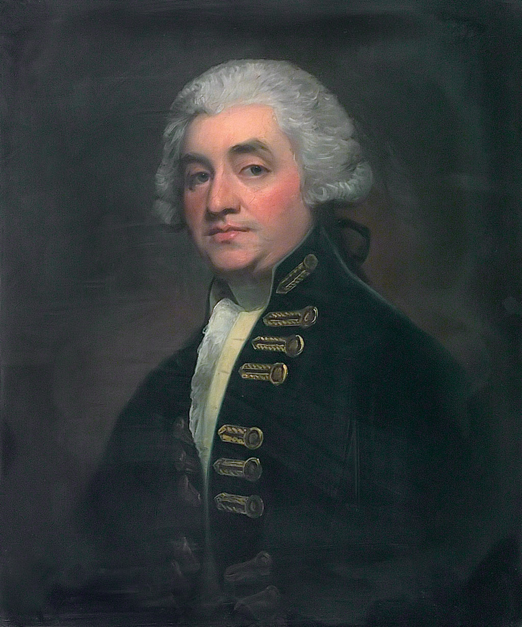 A half-length portrait to left in vice-admiral's undress uniform, 1787-95 and a white tie wig.